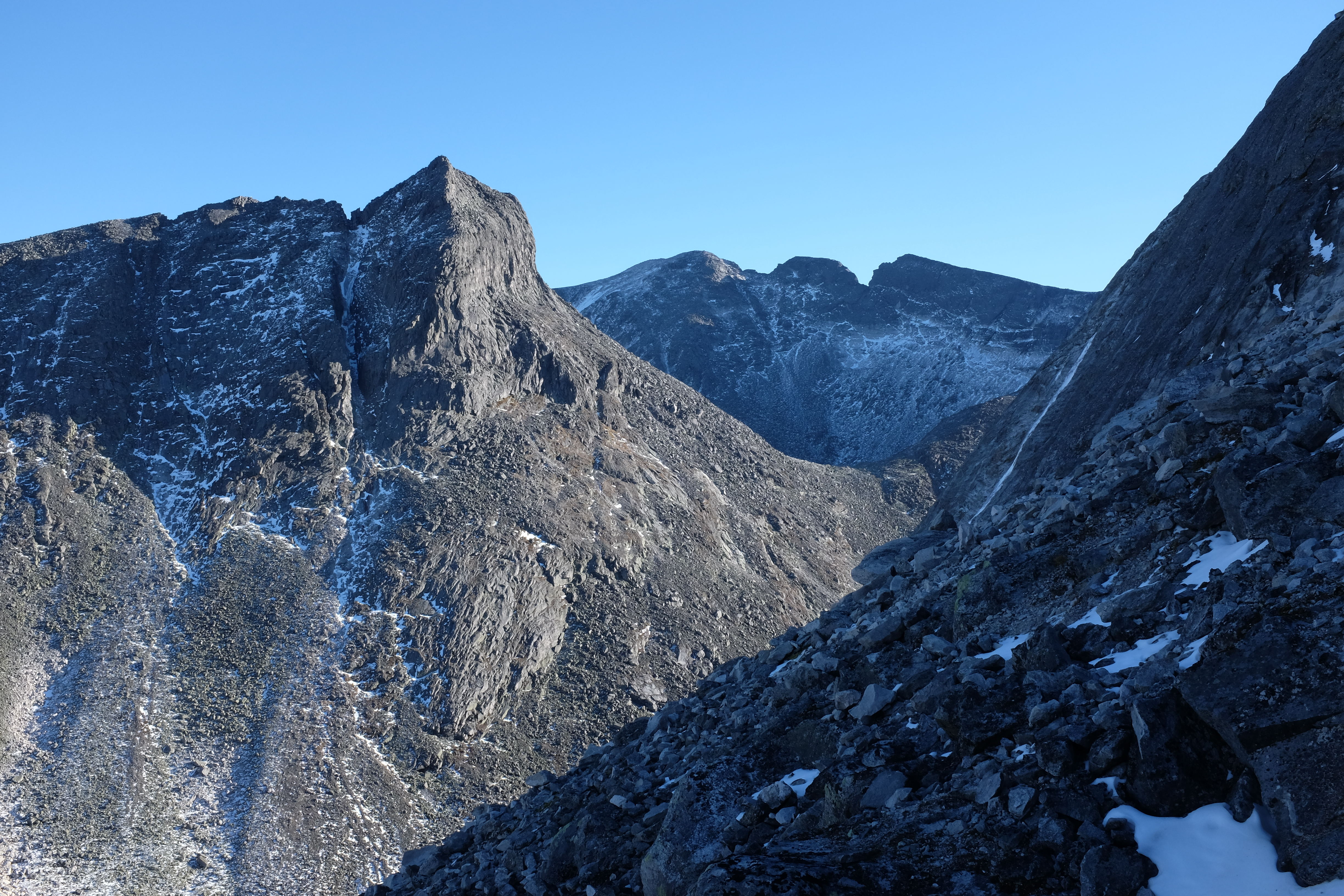 Larstind peak (2108 m above sea level) seen from the ascent to Store Langvasstinden peak. Dovrefjell-Sunndalsfjella National Park, Norway.